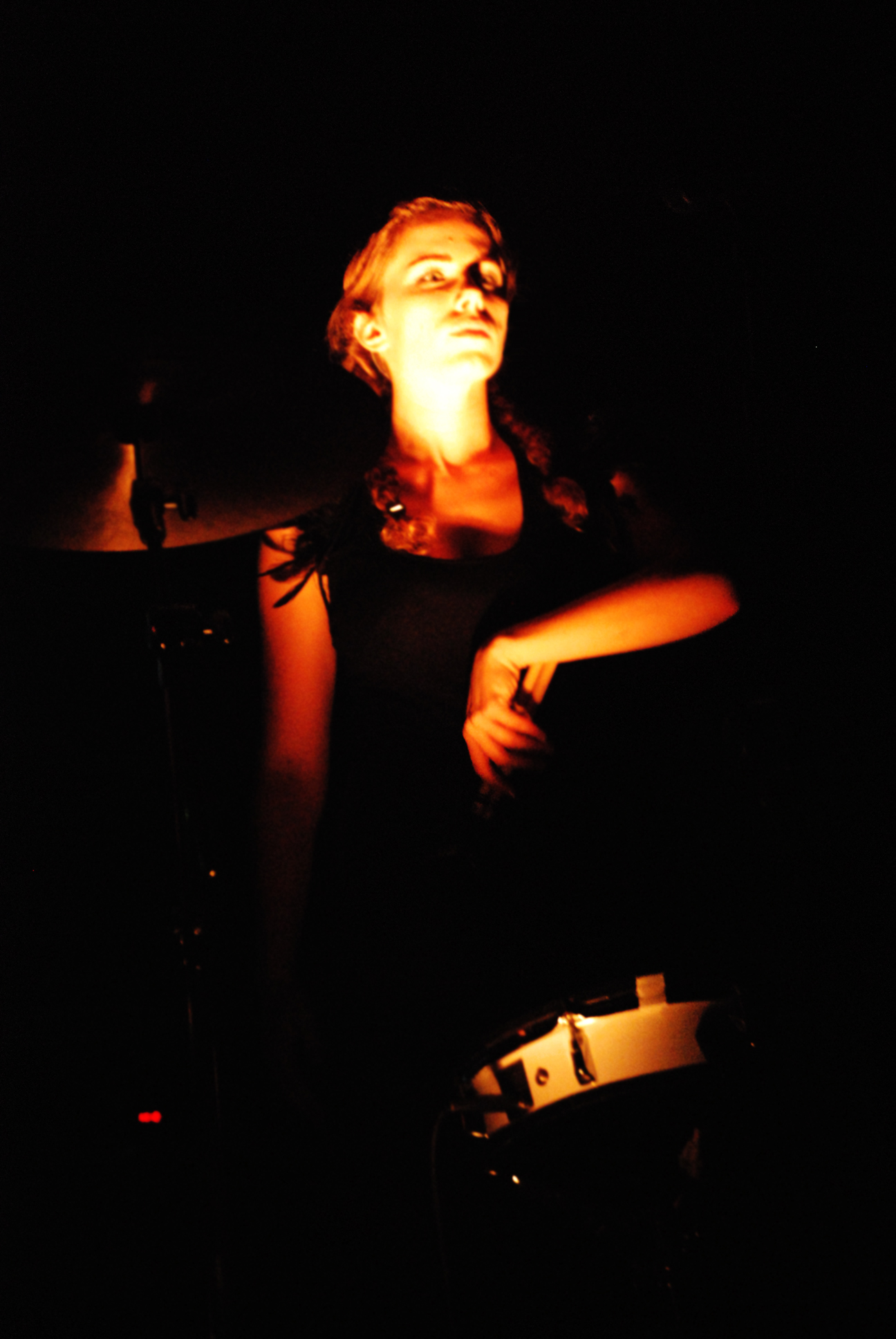 Laibach performing in Koper, Slovenia, at 18th of october, 2008. Last concert of Volk tour. In this part of concert they played songs from the album Wat. On the photo: One of 2 female drummers / vocals.